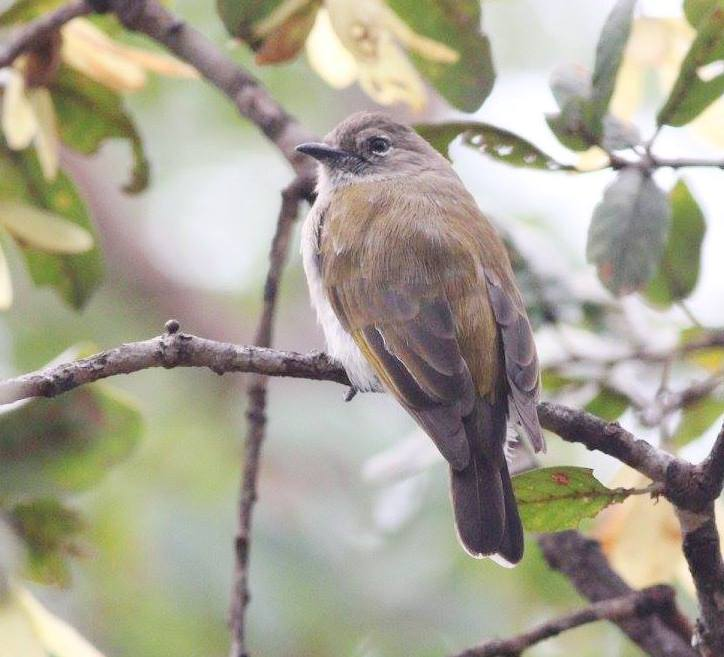 Green-backed honeybird near the source of the Cuito river, Angola